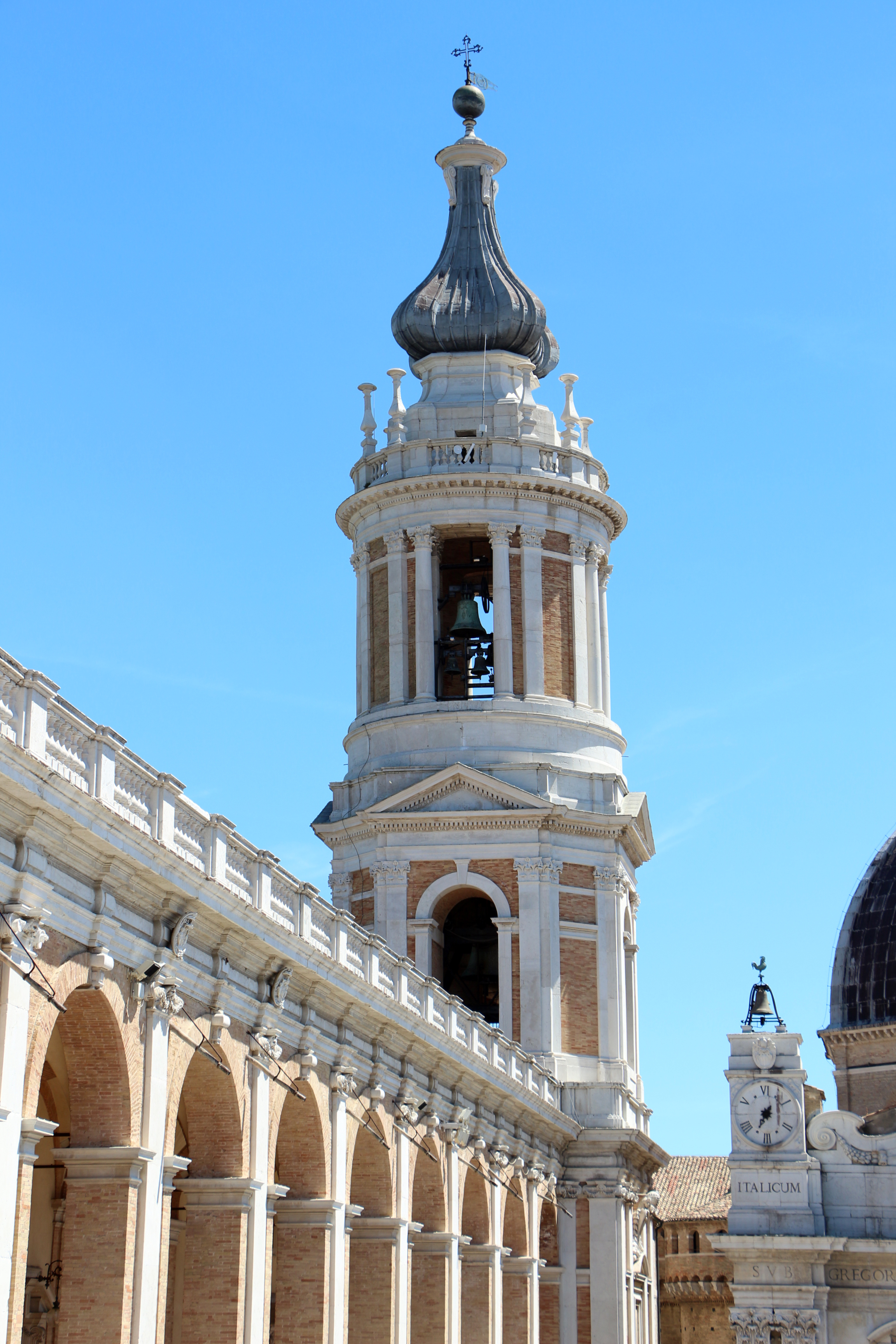 Santuario della Santa Casa (Loreto)